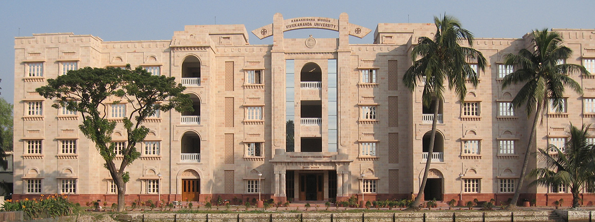 Medha Bhavan, the main administrative building of Ramakrishna Mission Vivekananda Educational and Research Institute